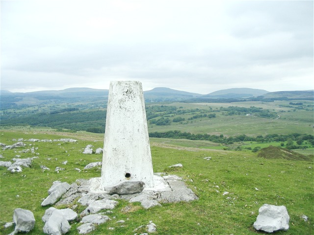 Moel Penderyn trig pillar It's only a short ascent from the nearby back road but well worth it. From here you can see the peaks in the Beacons to the east all the way over to Fan Hir in the west. The horizon in this shot makes up most of Fforest Fawr, namely Fan Gyhirych, Fan Nedd and Fan Llia.